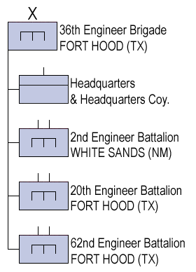 36th EN BDE Organization